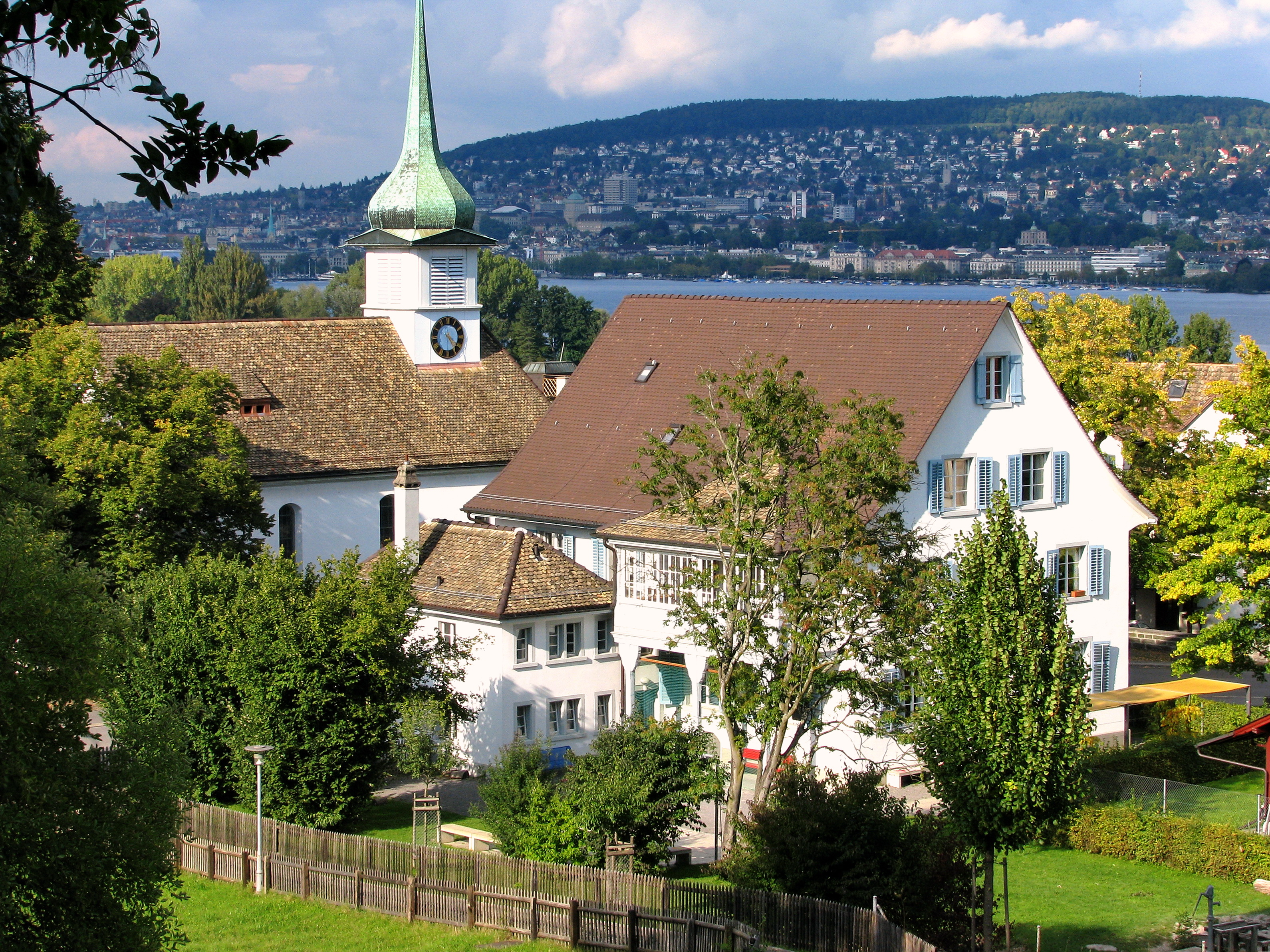 Zürich-Wollishofen : Alte Kirche (old church) as seen from "Neue Kirche" (new Protestant church).